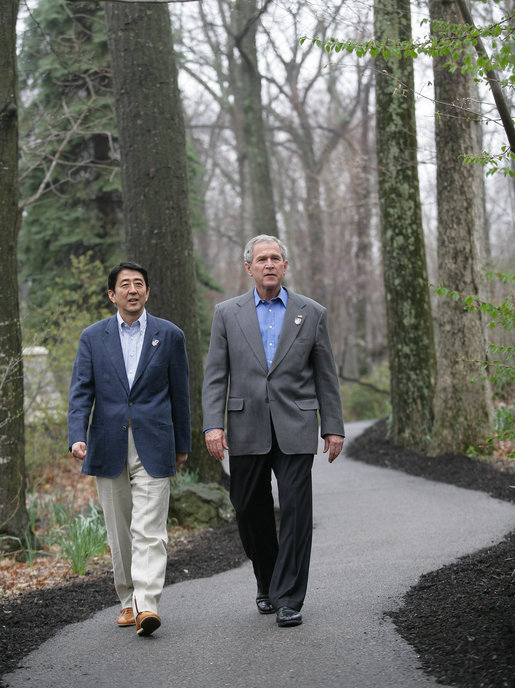 US President George W. Bush walks with Prime Minister Shinzō Abe during their meeting Friday, April 27, 2007, at Camp David. Said the President, " We talked about the fact that our alliance -- and it is a global alliance -- is rooted in common values, especially our commitment to freedom and democracy."